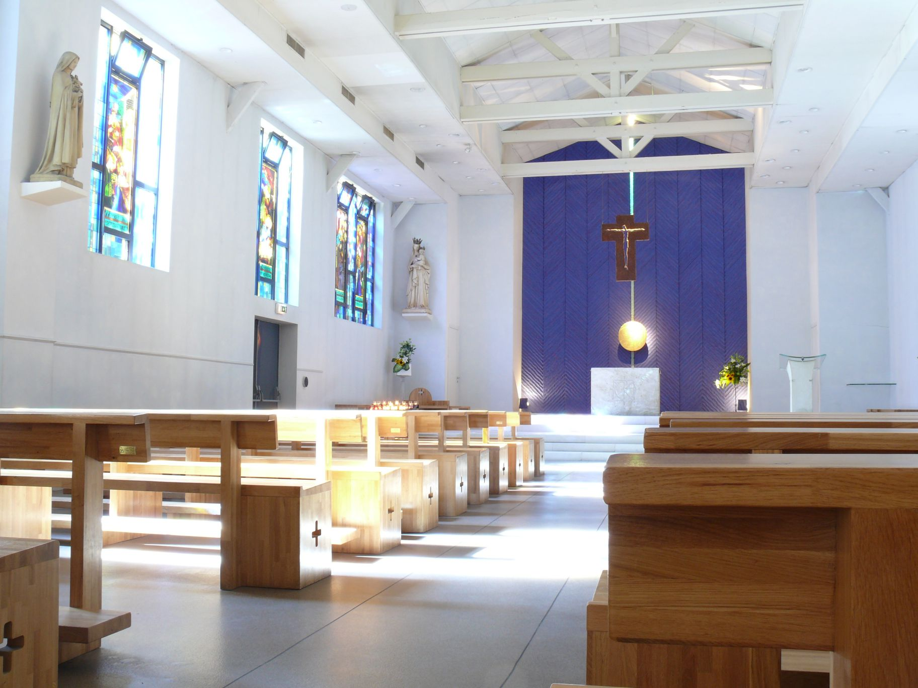 Notre-Dame-de-Nazareth's church, in Paris (Paris XV, France)